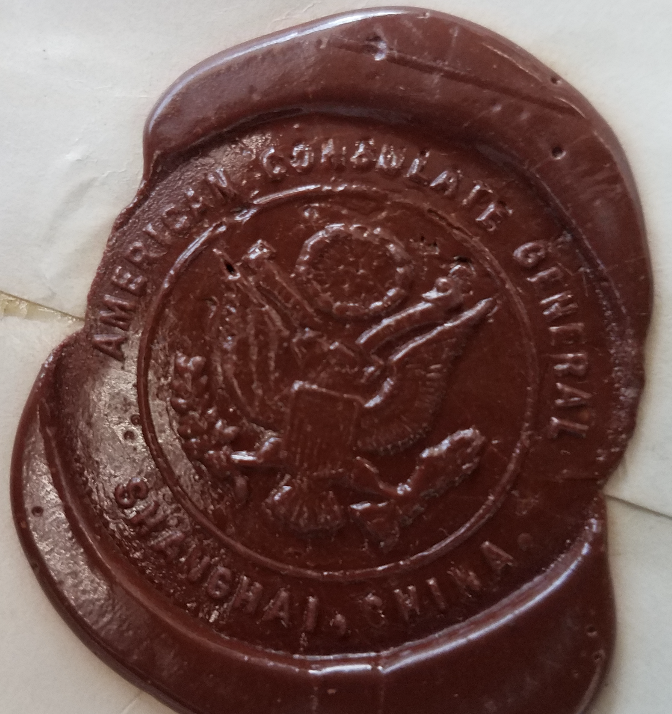 Wax seal of US Consulate General Shanghai from the 1930s